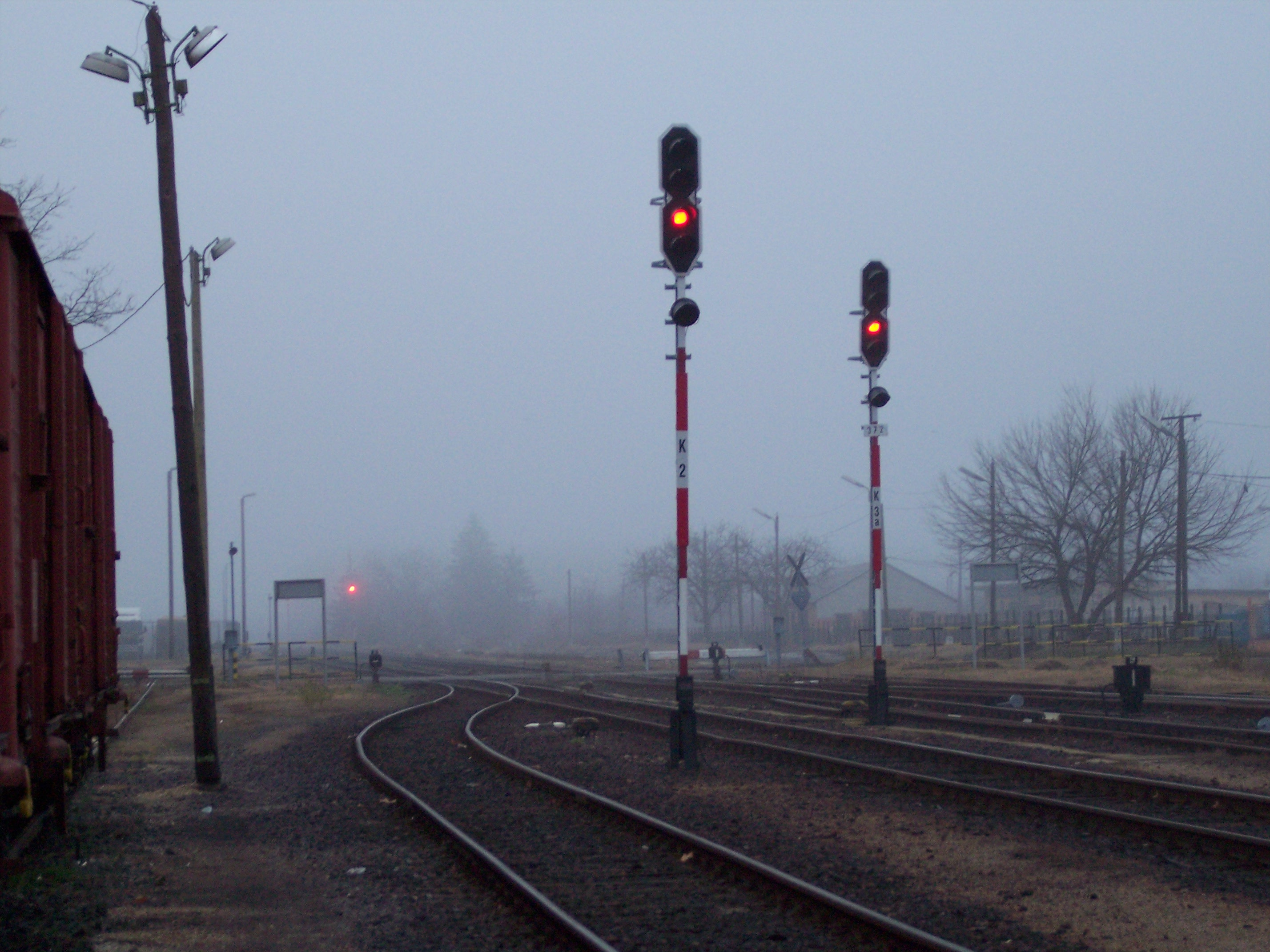 Railroad lamp (Hungary)